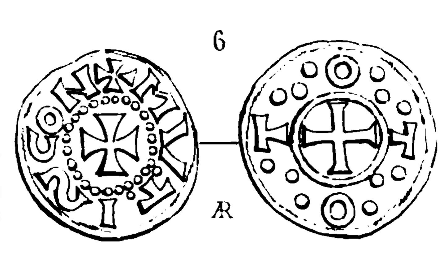 Coin of Otto-William of Burgundy